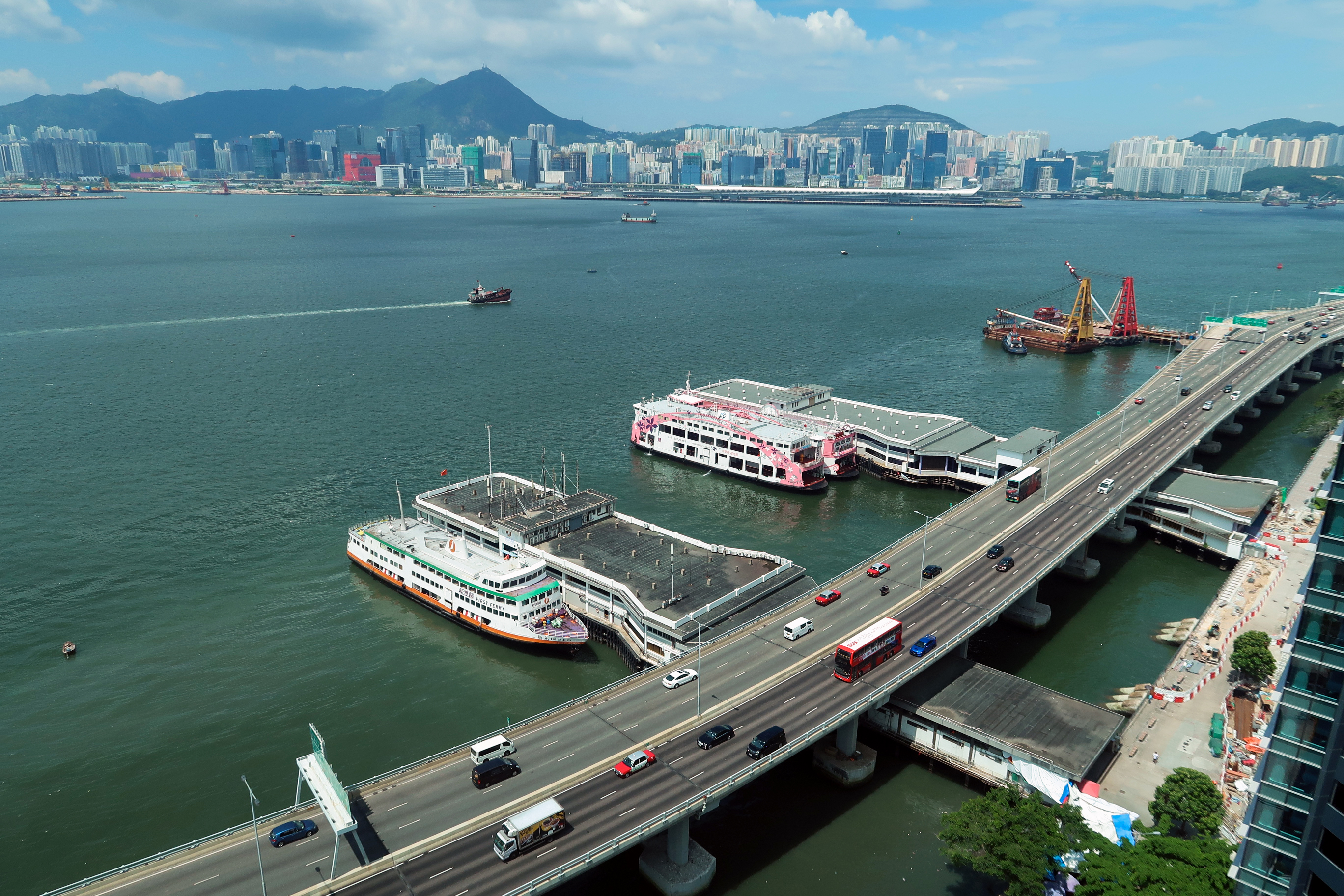 North Point Ferry Pier